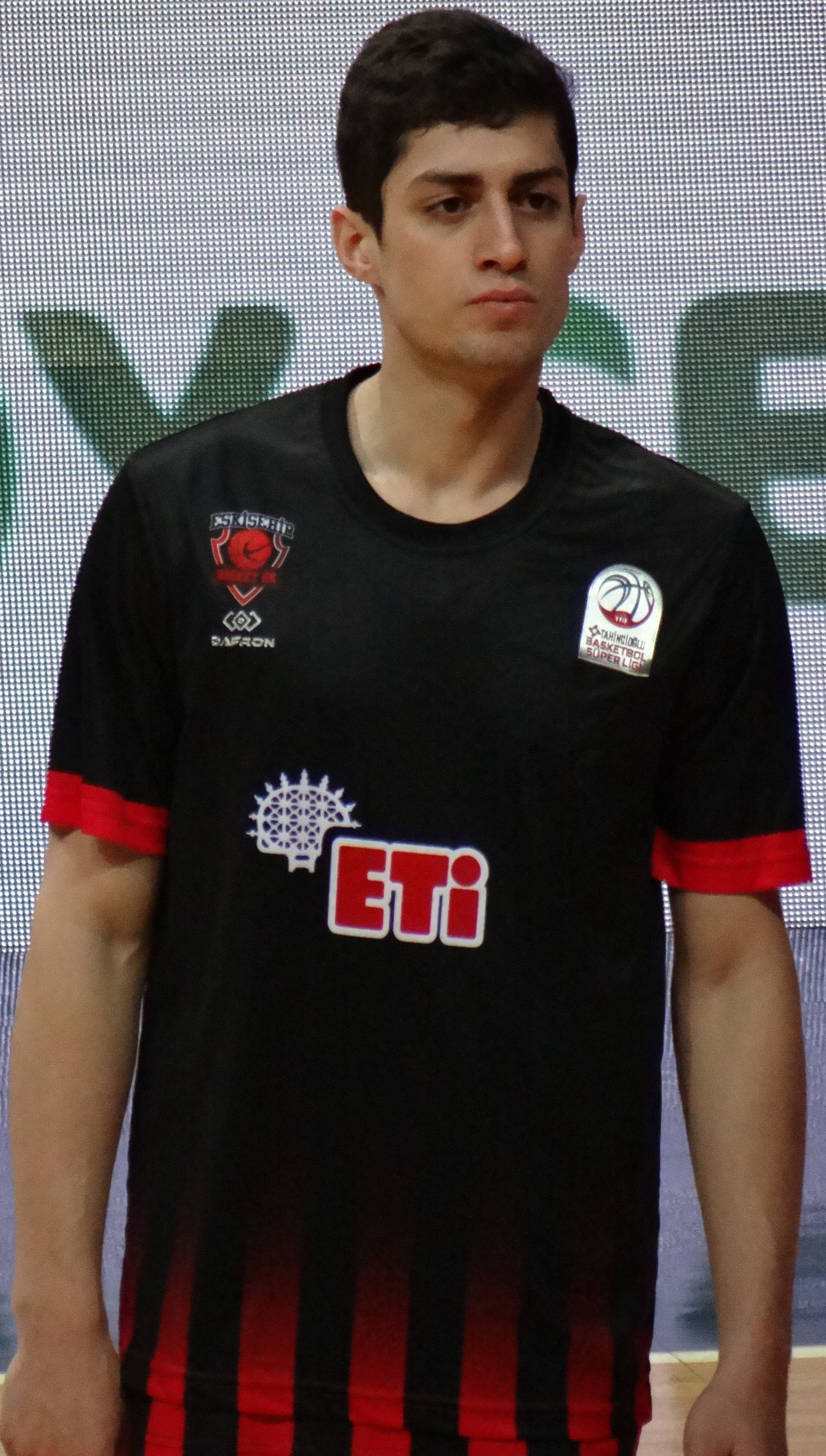 Arda Berk Kaya 26 Eskişehir Basket TSL 20180325